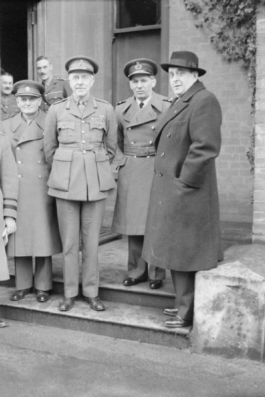 IWM caption : Members of the Czech Government in Exile visiting Northern Ireland. Left to right: Brigadier General Edmund Hill (USA); General Jan Sergěj Ingr, Minister of National Defence and Commander in Chief of Czechoslovak Forces; Lieutenant General Harold Edmund Franklyn CB DSO MC, General Officer Commanding British Troops in Northern Ireland; Air Vice Marshal Karel Janoušek, General Officer Commanding the Czechoslovak Air Force; and Mr Jan Masaryk, Deputy Prime Minister and Foreign Minister of Czechoslovakia.